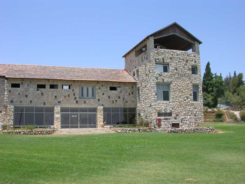 Kfar Giladi courtyard, to where the wounded and dead were brought, serves today as a museum